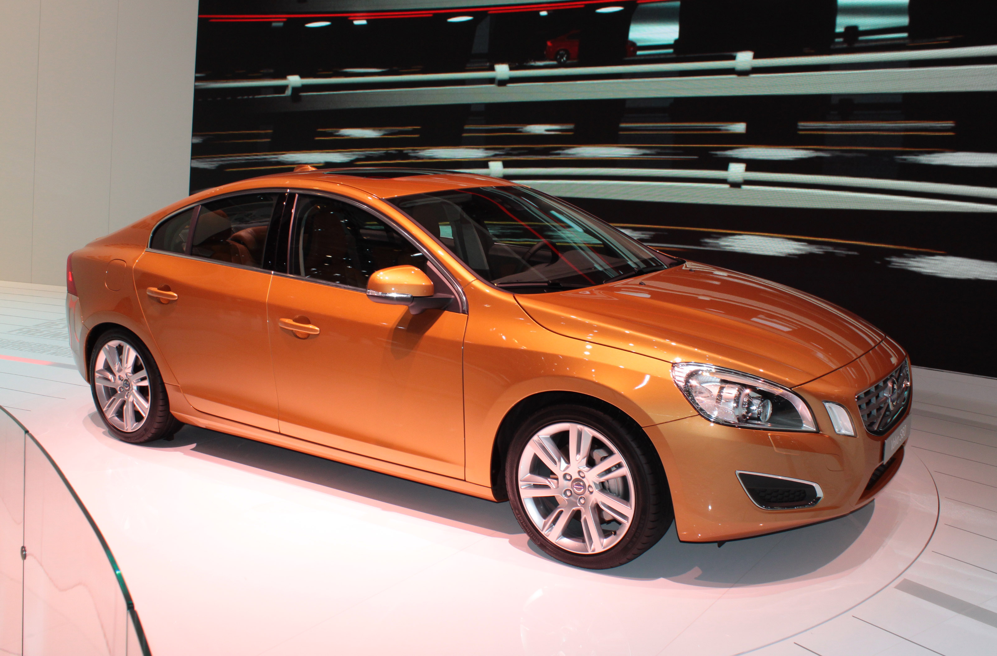 Volvo S60 MkII at the 2010 Geneva Motor Show